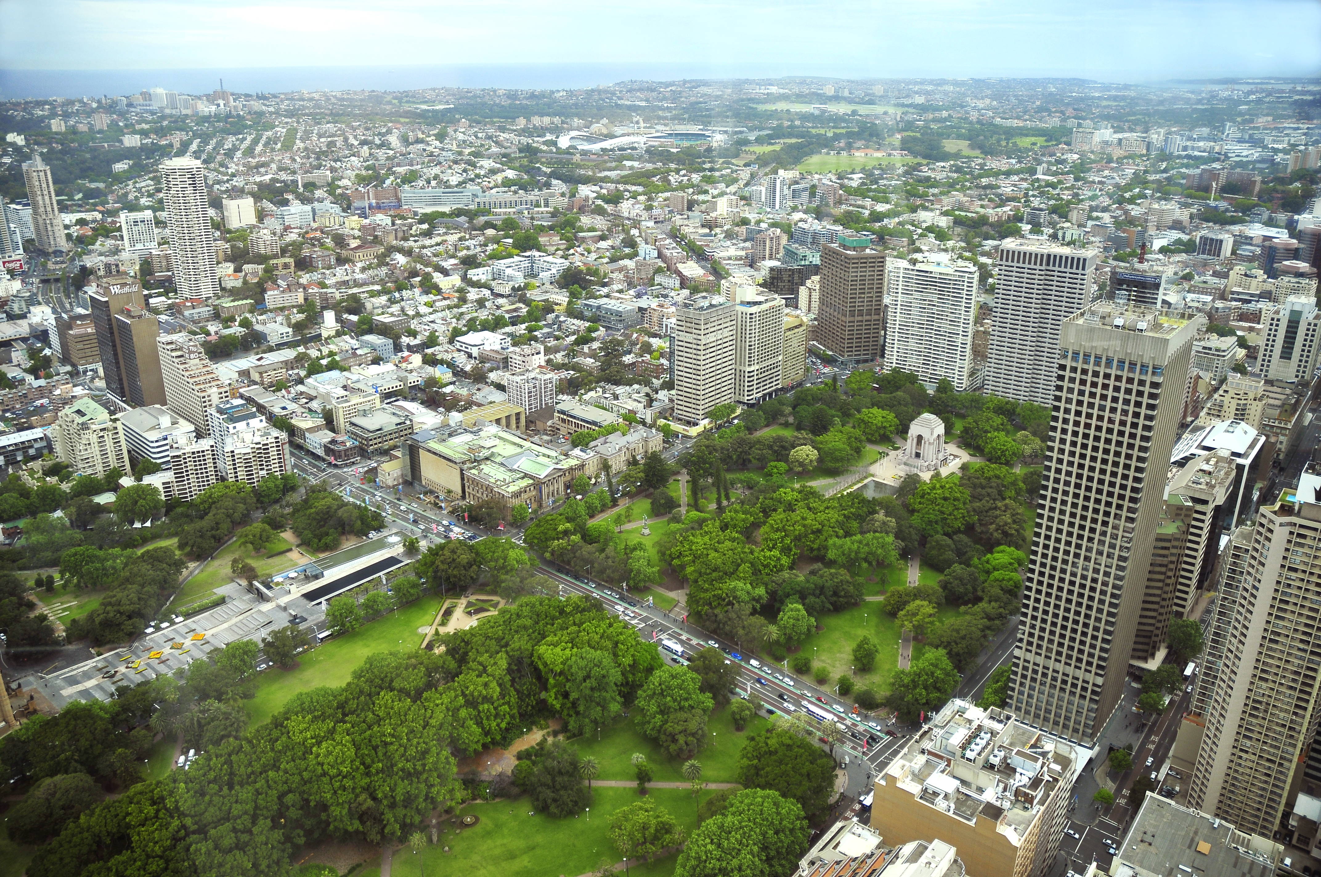 View from the Sydney Tower. Sydney, New South Wales, Australia